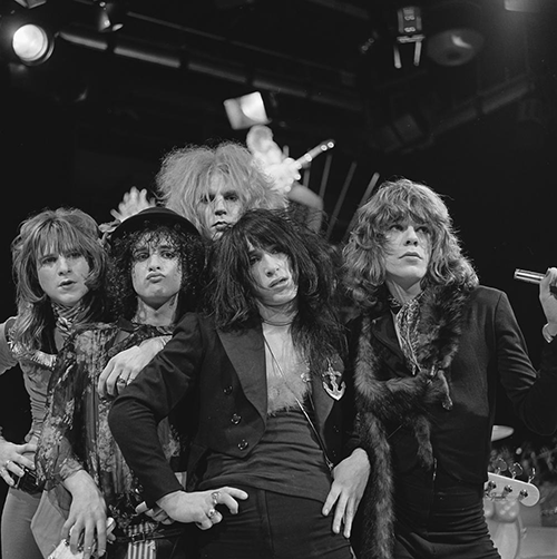 New York Dolls in AVRO's TopPop (Dutch television show) in 1973